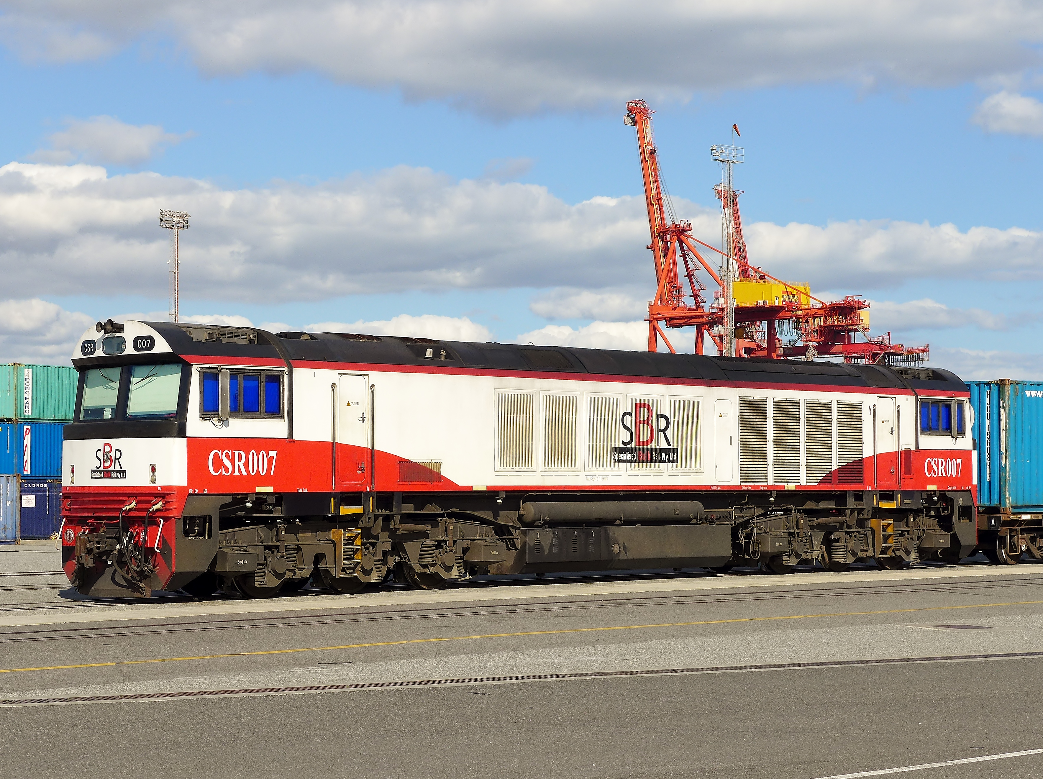 View of Specialised Container Transport CSR Ziyang SDA1-type locomotive no. CSR007 stabled with intermodal wagons at North Quay rail terminal at the Port of Fremantle, Western Australia.